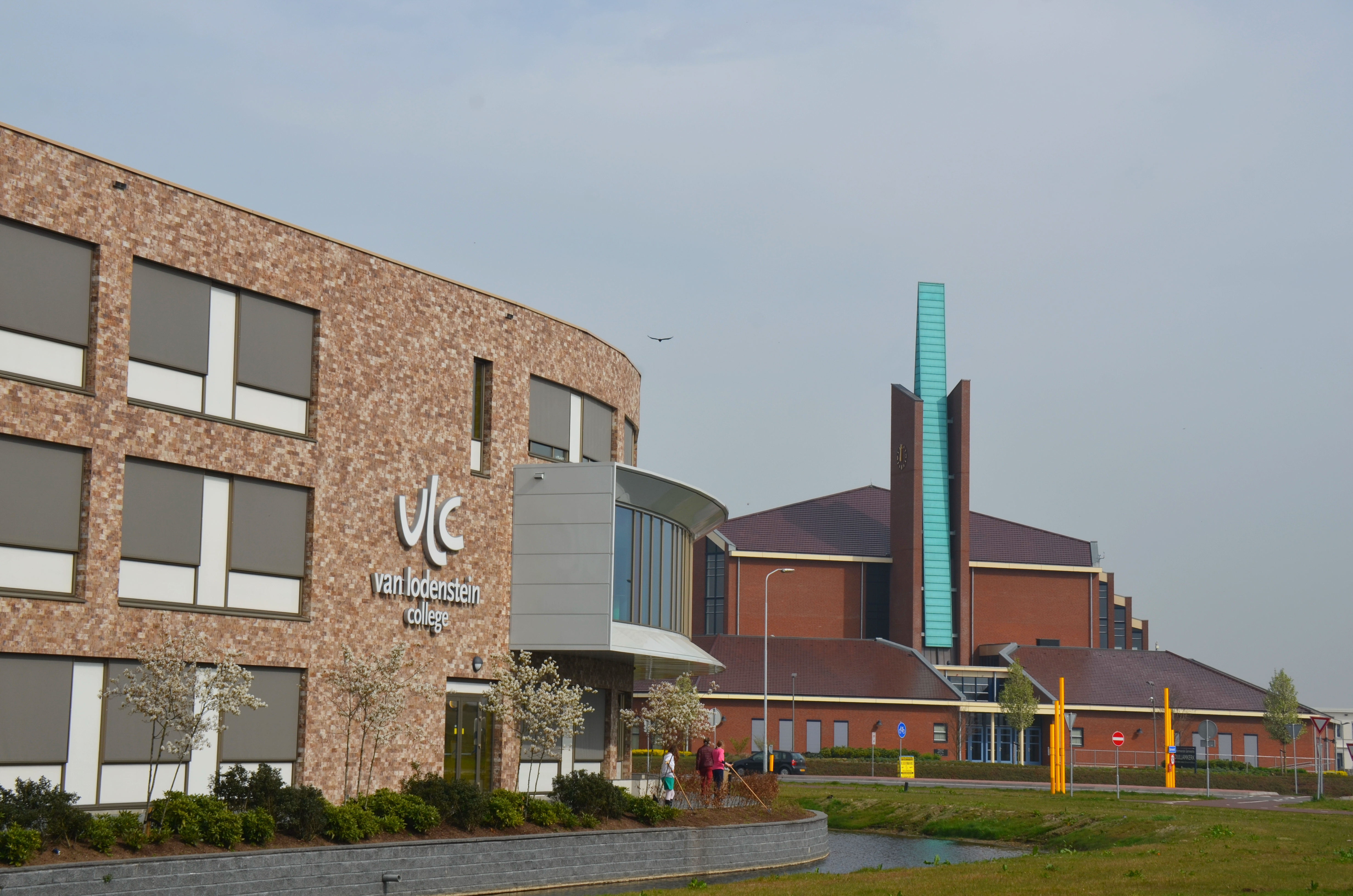 A school and a church just built at Barneveld South: colourful scenery